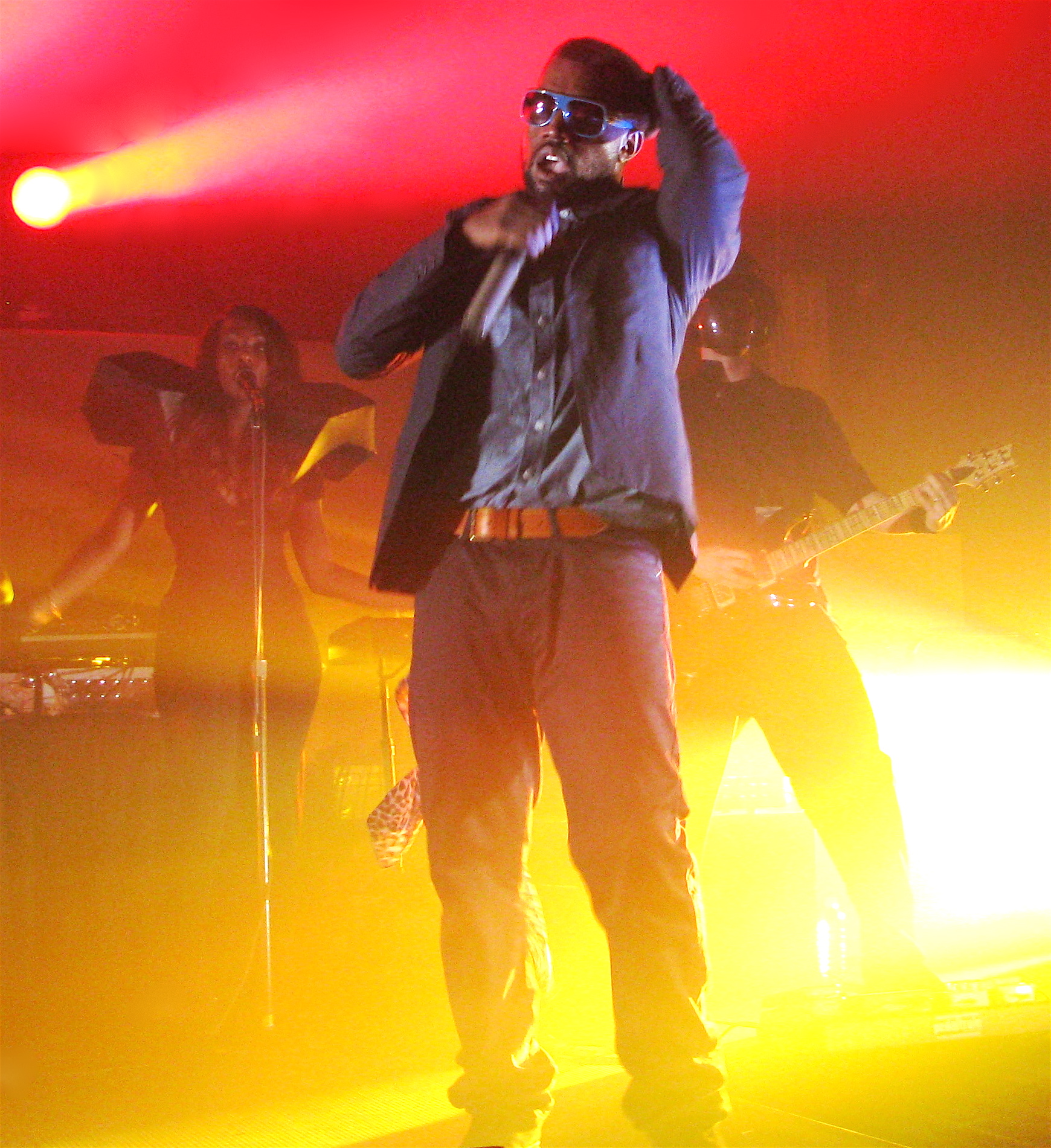 • DNC: will.i.am, Sheryl Crow, Kanye West with Jamie Foxx, Rage Against the Machine • RNC: Beach Boys, Styx and the Charlie Daniels Band =) Something old, something new…